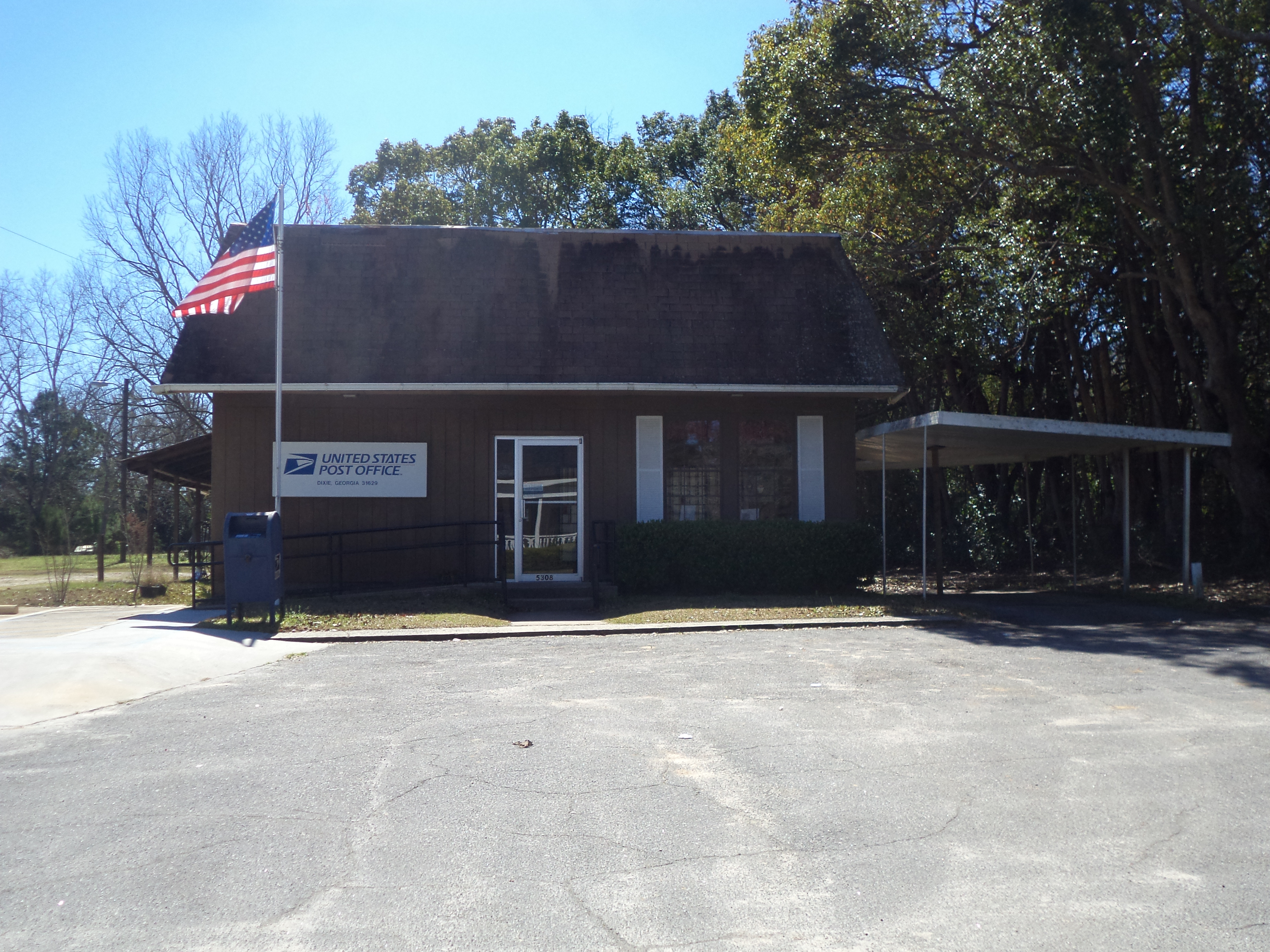 Dixie Post Office, 5308 Dixie Rd, Dixie, Brooks County, Georgia